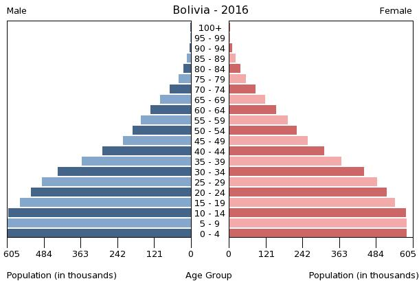 The population pyramid of Bolivia illustrates the age and sex structure of population and may provide insights about political and social stability, as well as economic development. The population is distributed along the horizontal axis, with males shown on the left and females on the right. The male and female populations are broken down into 5-year age groups represented as horizontal bars along the vertical axis, with the youngest age groups at the bottom and the oldest at the top. The shape of the population pyramid gradually evolves over time based on fertility, mortality, and international migration trends.